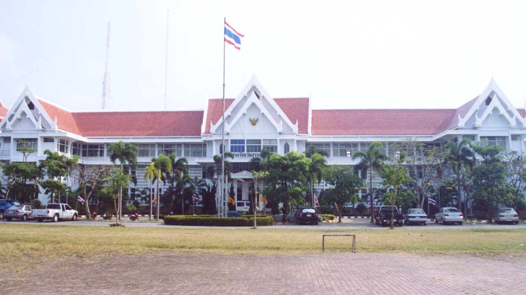 Provincial hall (Sala khlang) of Surat Thani province, Thailand. Photo by User:Ahoerstemeier taken on January 27 2006.